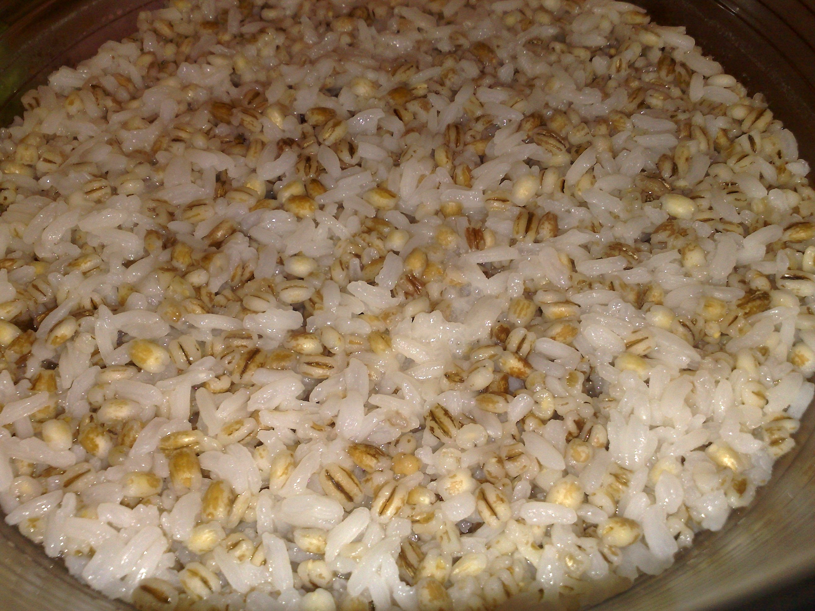 Barley and rice